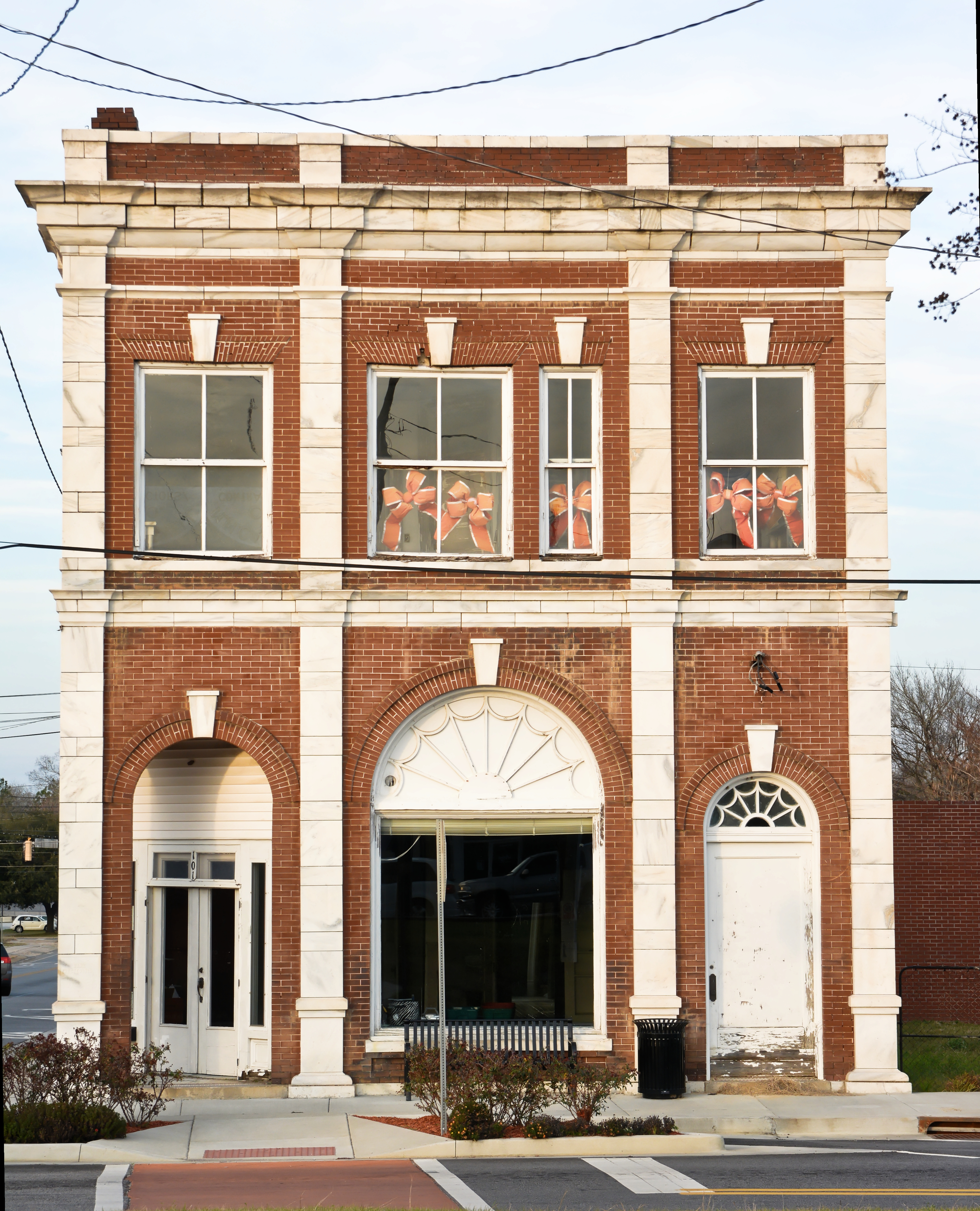 The Vidalia Commercial Historic District, Vidailia, Georgia, US. First National Bank at Main and McIntosh, built 1910